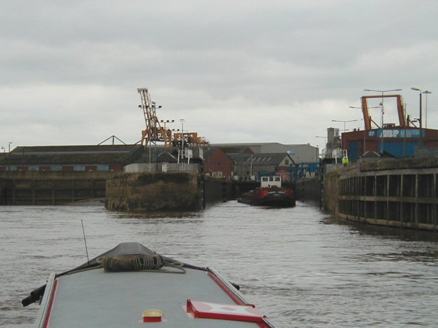 Victoria Lock, Goole, East Riding of Yorkshire, England.One of two usable entrances to Goole docks, big enough for ocean-going ships. The remains of Ouse Lock can be seen on the left. The area was busy up to the 1970s with coal-carrying container craft called 'Tom Puddings,' each of which can carry 35 tons. 60 of them sank in Ouse Lock in 1960. This led to the introduction of a false bow called a 'jebus' when being towed.